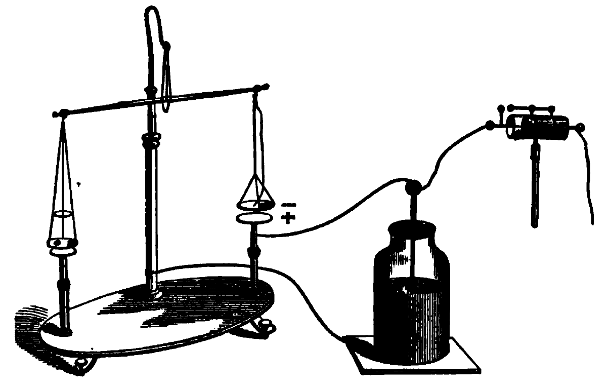 The force of attraction between two charged surfaces has been measured by an igenious modification of the common balance devised by Snow Harris. A light disk of gilt wood is substituted, as shown in fig. [185], for one the pans of the balance; beneath it is a second similar insulated disk: the suspended disk and the balance beam, through its support, are connected the exterior of a Layden jar, and the lower insulted disk the the interior of the jar. By charging the Layden jar with definite quantities of electricity by means of the unit jar, the laws which regulate the attractive force were experimentally determined.